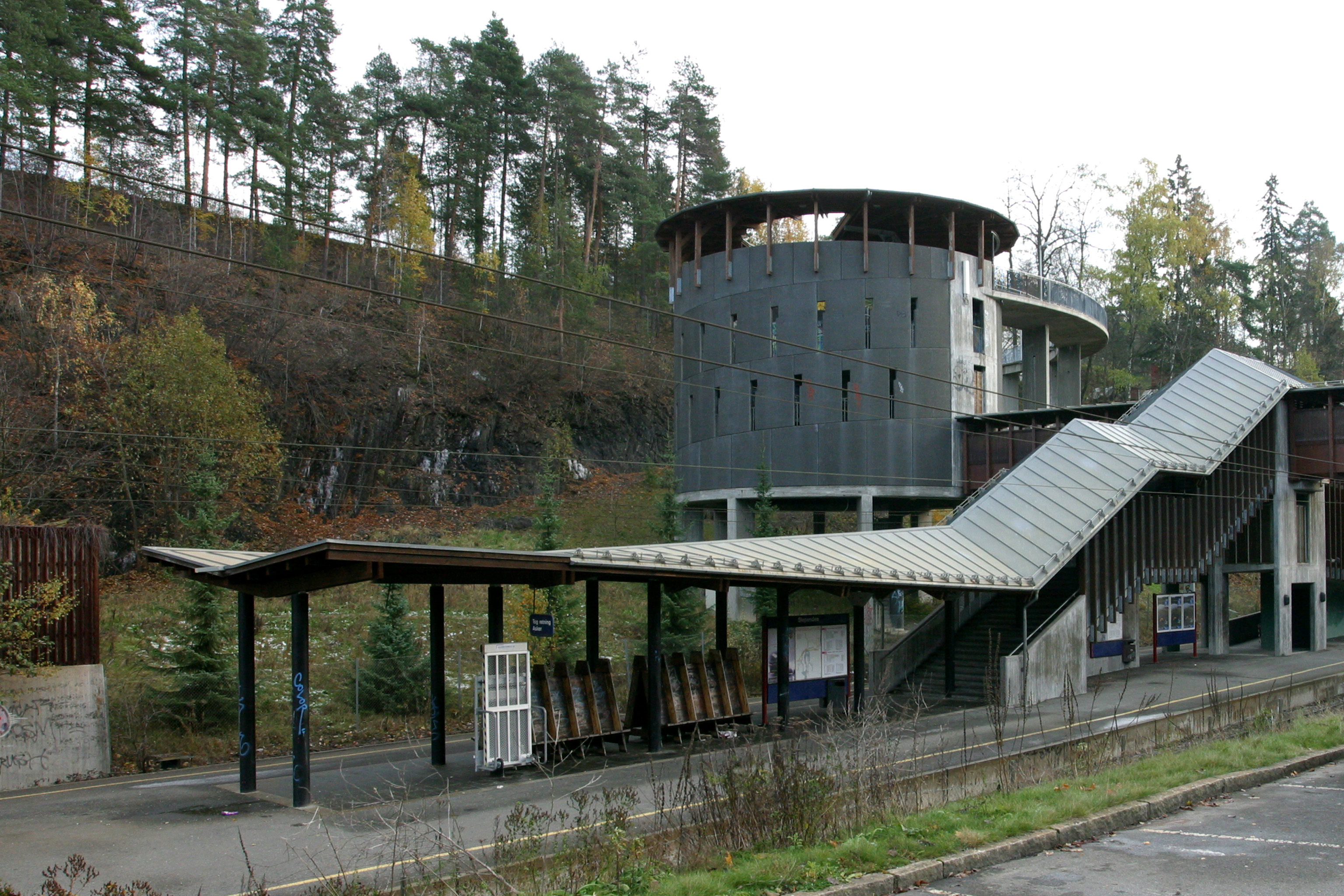 Picture of Slependen Railway Station (Norway)